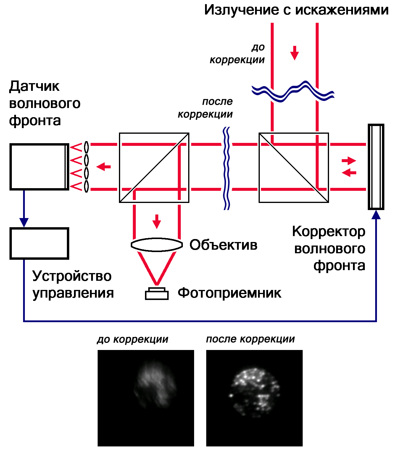 Scheme of adaptive optical system